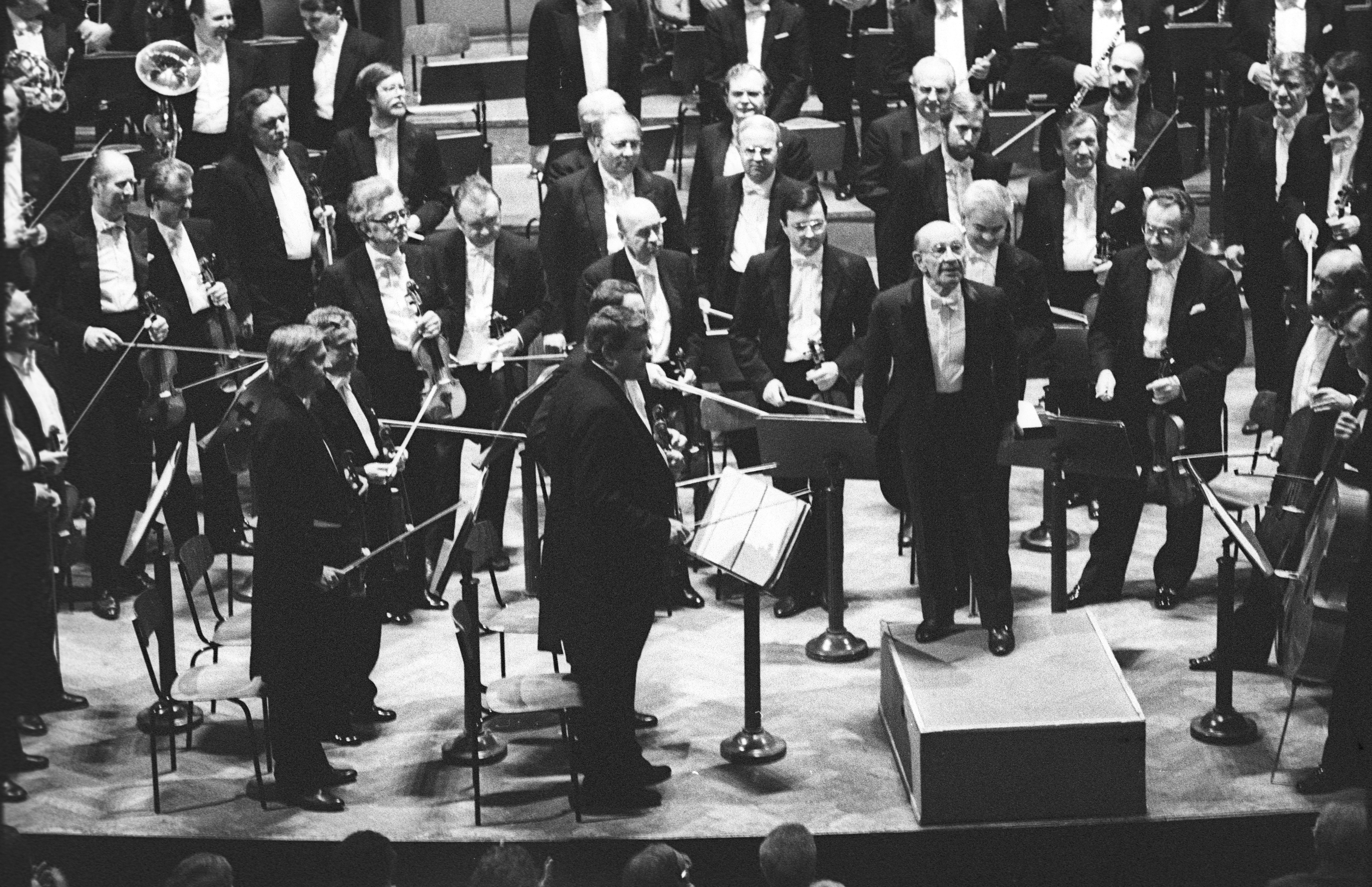 Erich Leinsdorf conducting Czech Philharmonic, Dvořák Hall, Prague, Czech Republic, 23 June 1988.